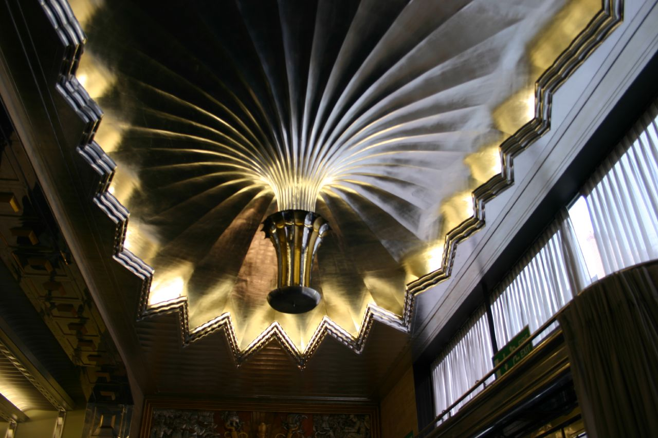 Art Deco reliefs: ceiling and aluminium leaf covered recessed lighting in the Daily Express Building, Fleet Street, London.